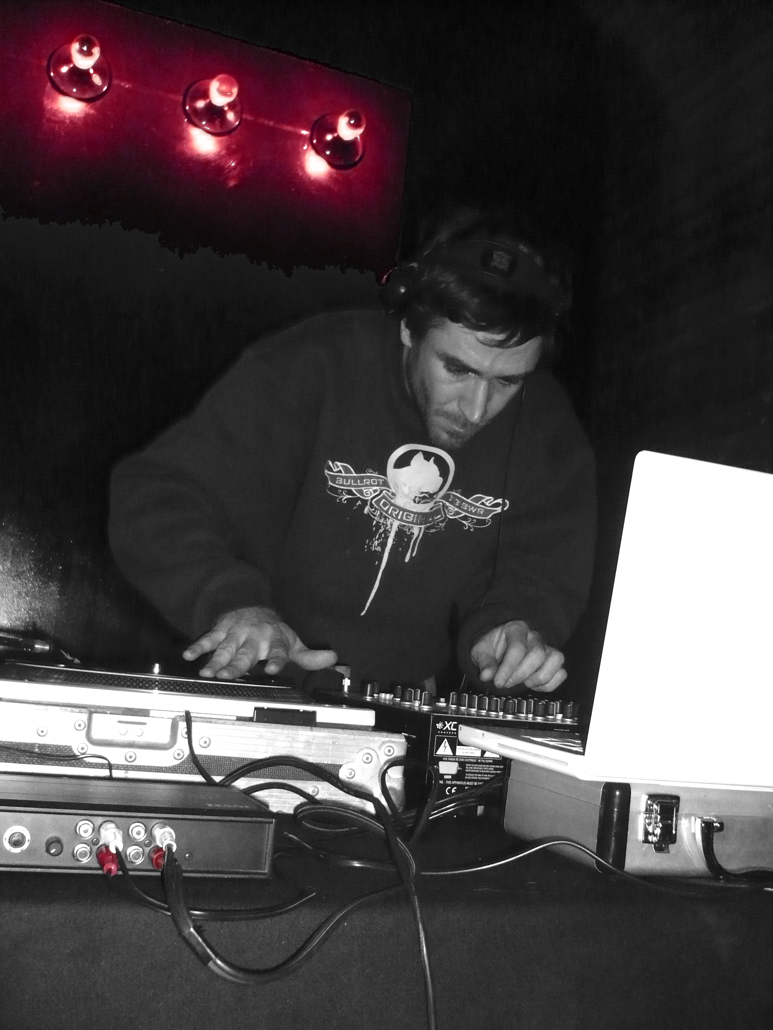 The italian dj and mc Deda aka Katzuma